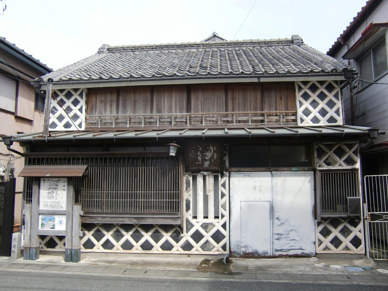 Anchokurō in Shimoda, Shizuoka.